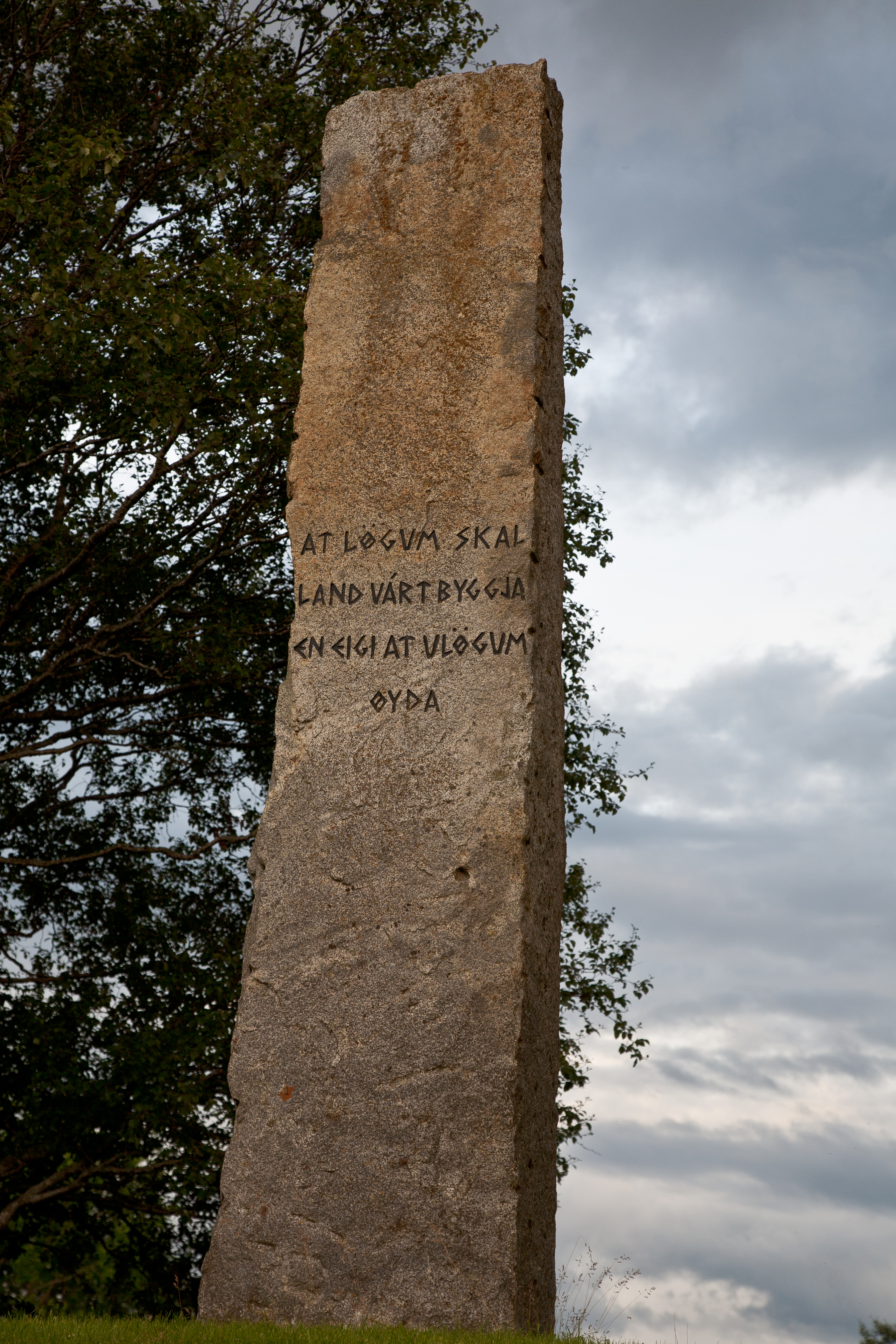 Frostating bauta